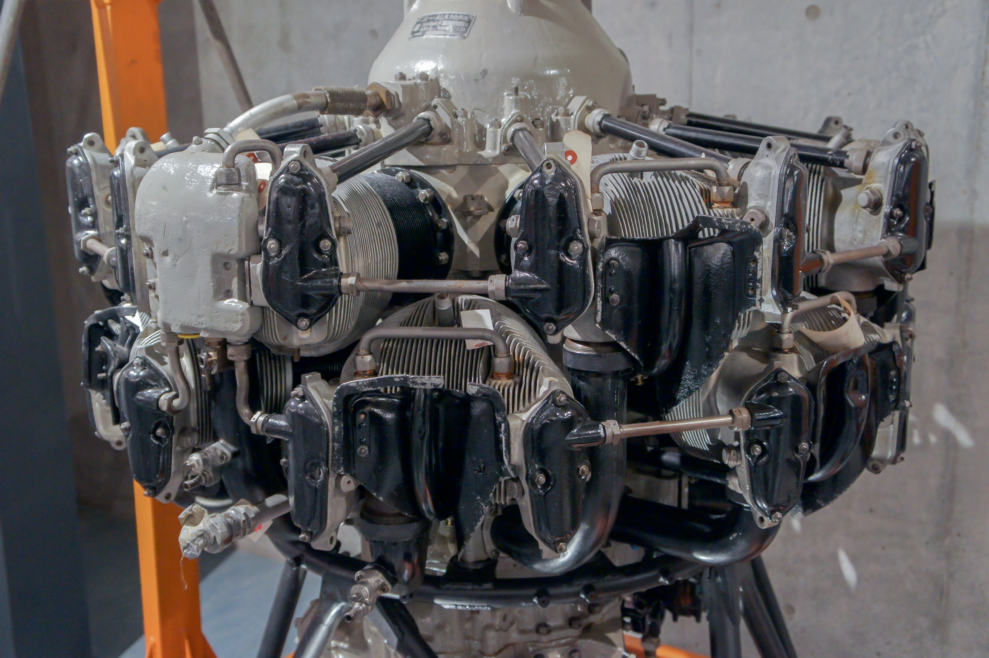 Nakajima Sakae Ha-115 Model 21